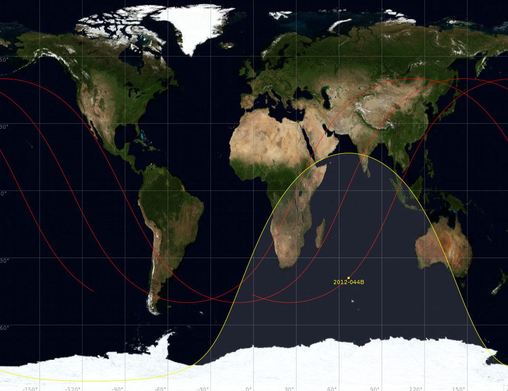 Ground track of satellite Ekspress-MD2 which failed to launch correctly - it was intended to be in geosynchronous orbit. Made from US government TLE data by GPLed program gpredict which plots the ground track over an public domain map of the world which originates from NASA. TLE from October 2012.